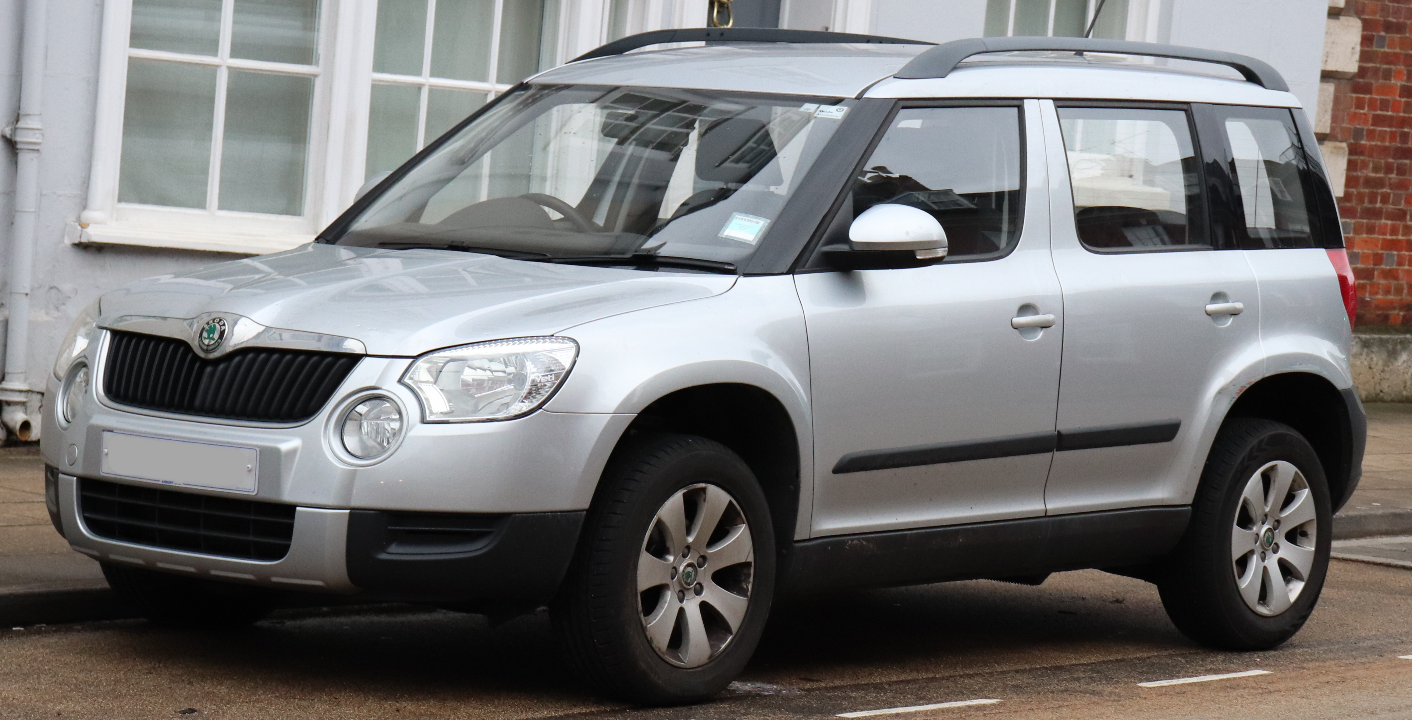 2011 Skoda Yeti S TSi 1.2 Front Taken in Warwick